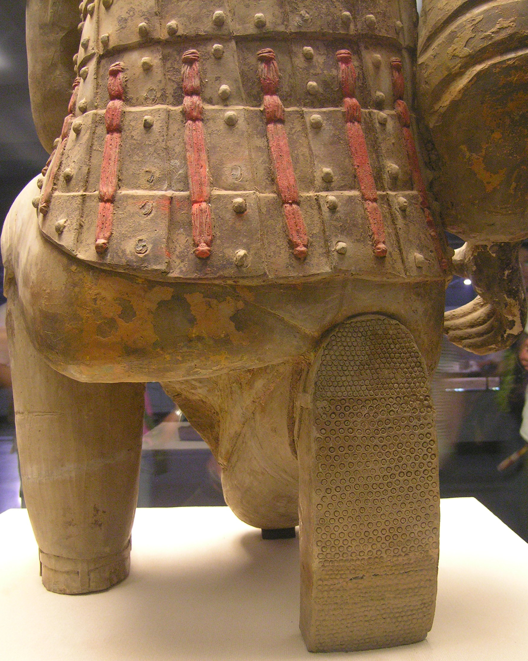 Detail of the Terracotta Warrior – "Kneeling Archer"